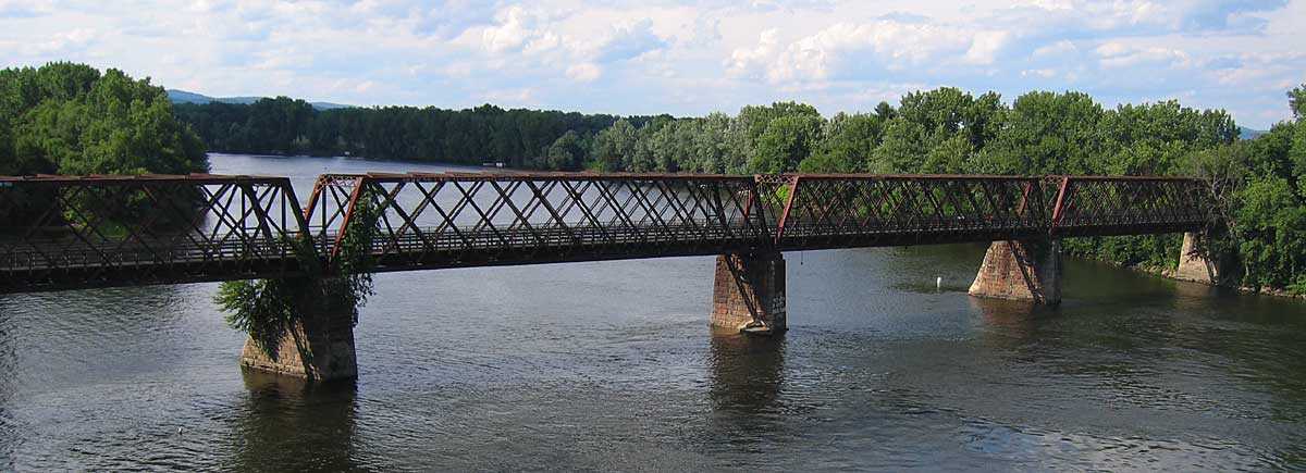 Norwottuck Rail Trail bridge between Northampton, Massachusetts and Hadley, Massachusetts. A former rail bridge, it is now a bicycle and pedestrian bridge.